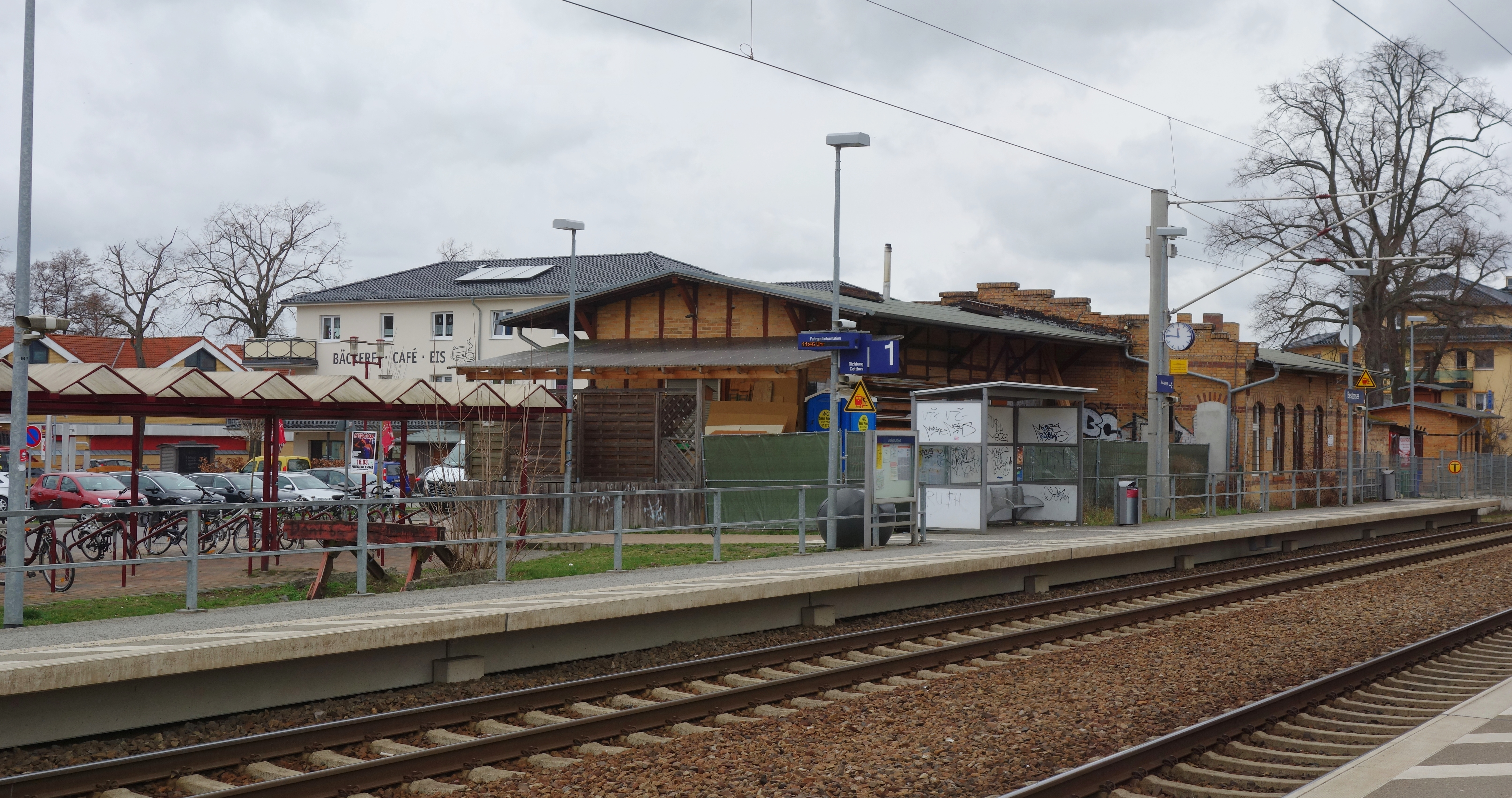 South-eastern view of the train station in Bestensee , Bestensee municipality , Dahme-Spreewald district, Brandenburg state, Germany